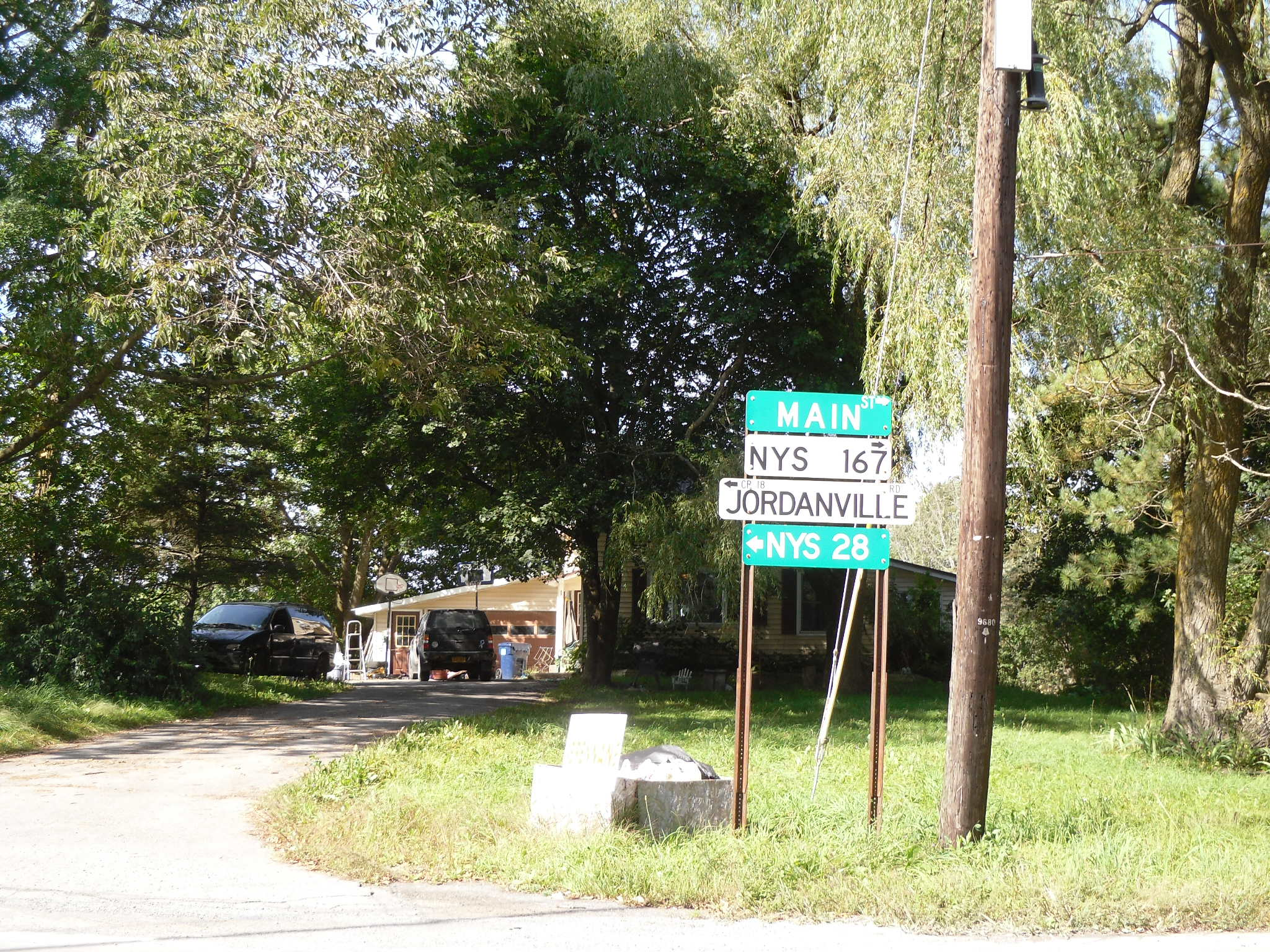 New York State Route 167 at Herkimer County Route 18 in Jordanville, New York.